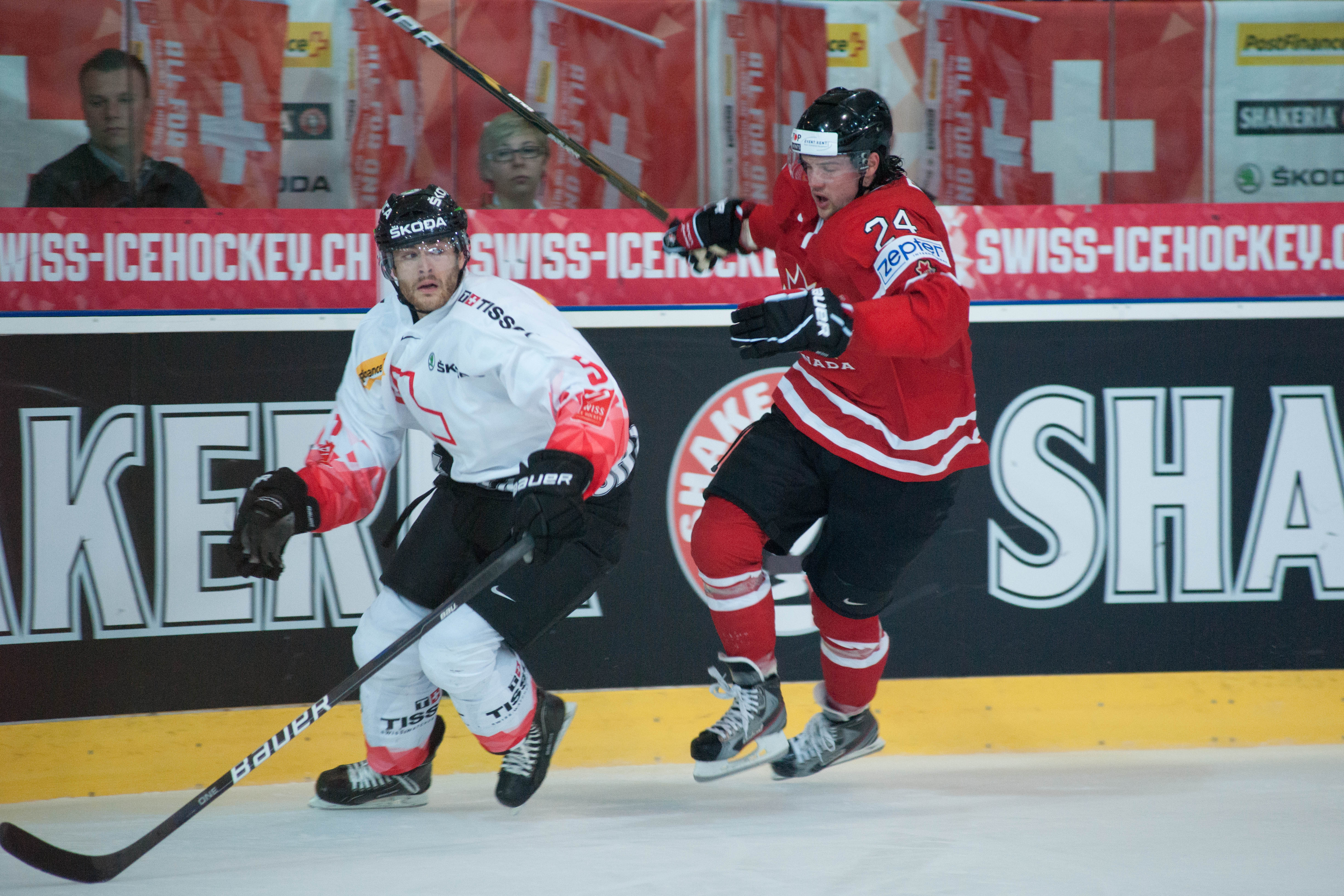 Switzerland vs. Canada, 29th April 2012